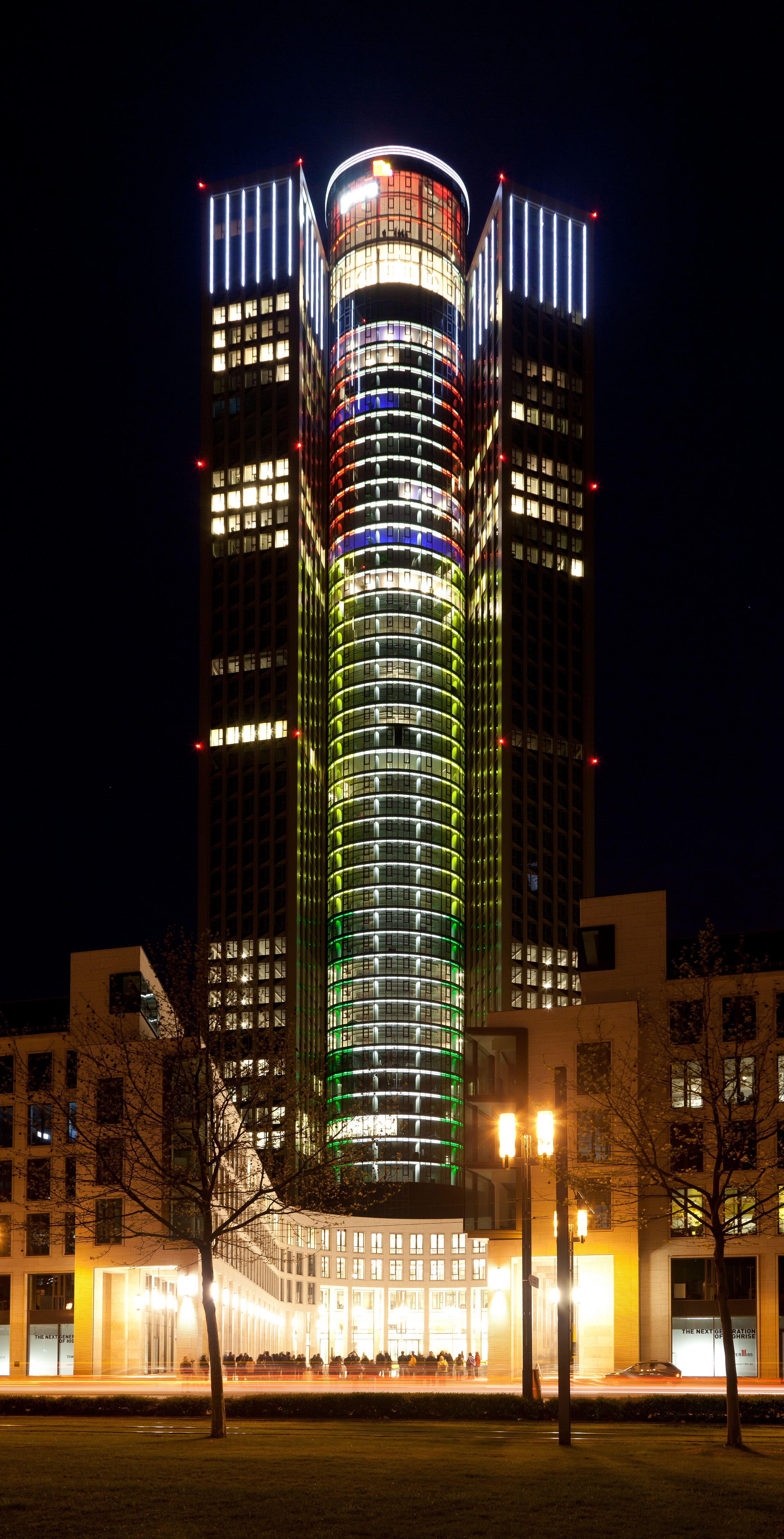 Tower 185 as highest high striker in the world at Luminale 2012 in Frankfurt, Germany